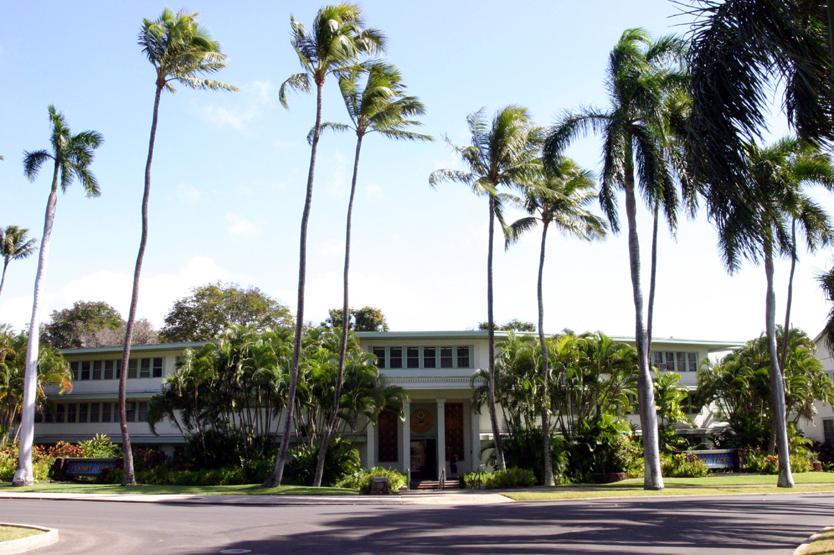 Richardson Hall at Fort Shafter, Hawaii from [1]